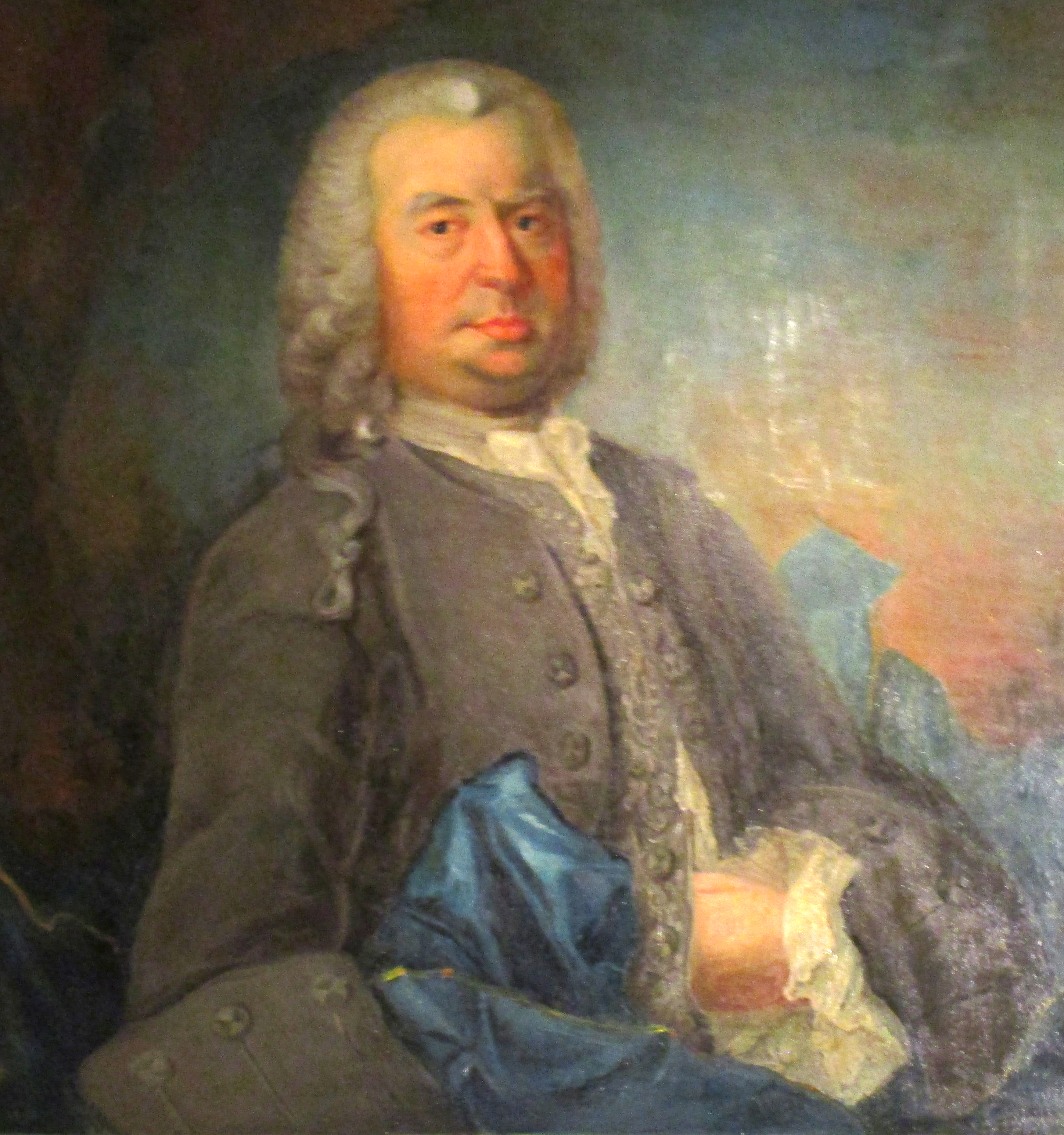 Portrait of Niclas Sahlgren (1701–1776) at age 56 - cropped version